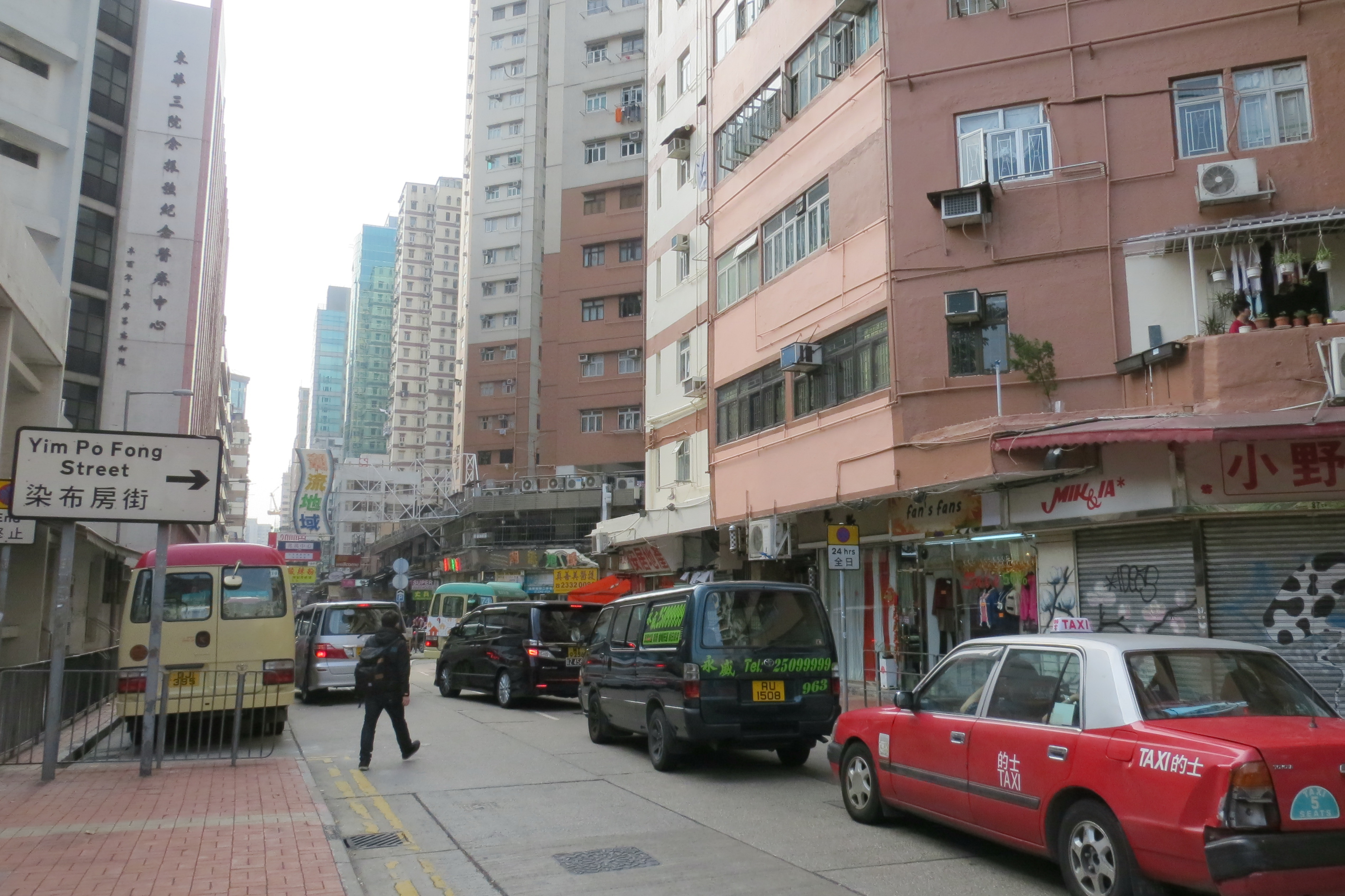 Dundas Street near Waterloo Road, Kowloon, Hong Kong.